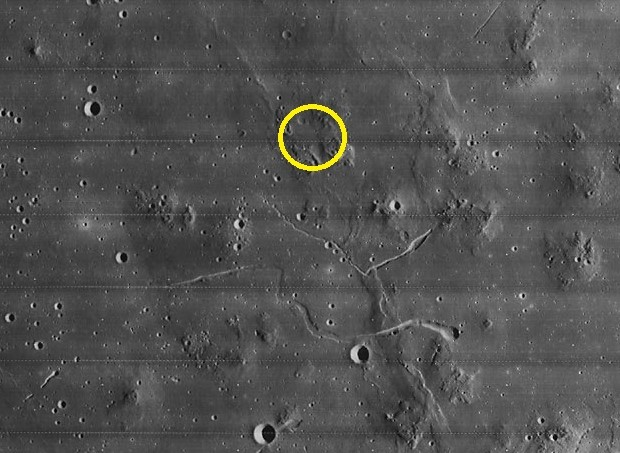 Enlarged section of a Lunar Orbiter 4 aerial photo of the Moon's Marius Hills, with USGS and Bellcom's proposed landing site indicated by a yellow circle.